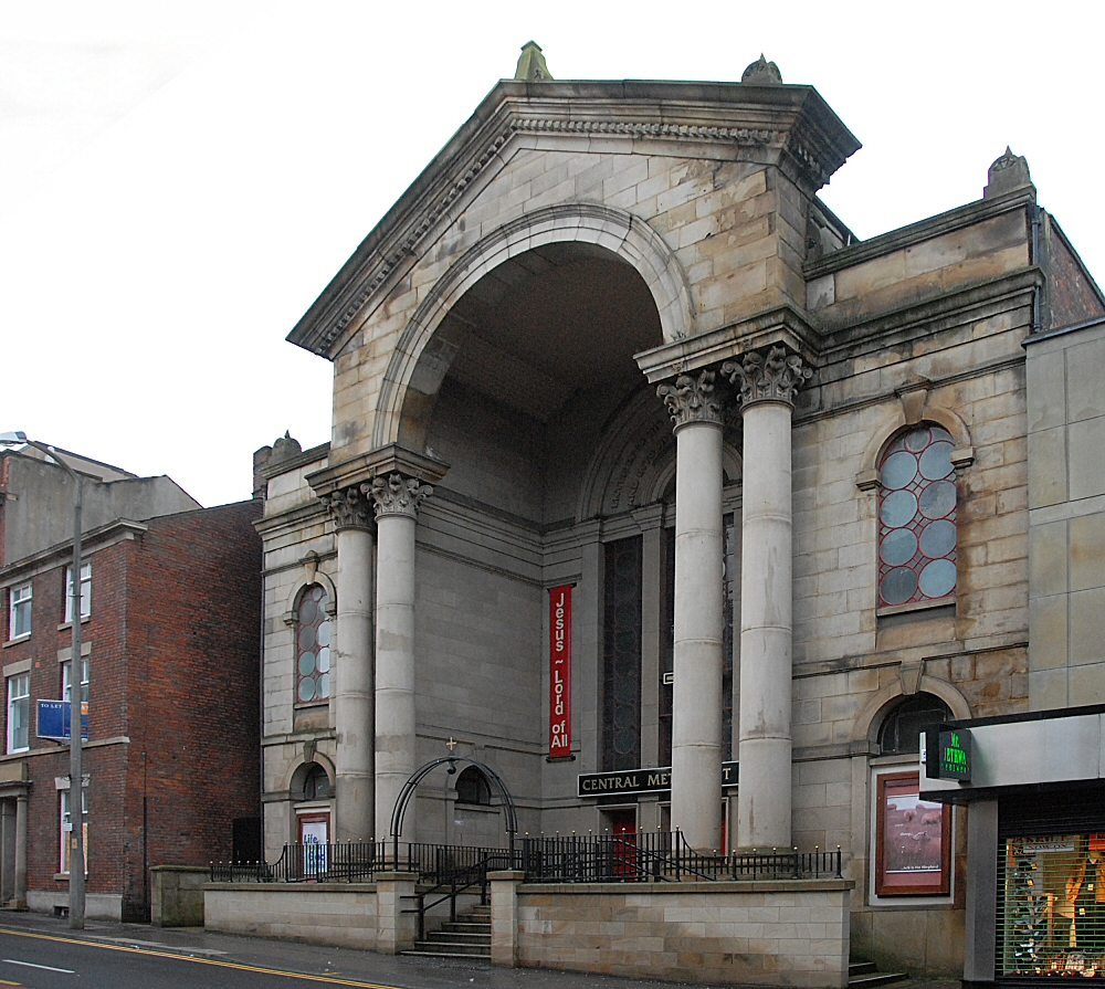 Central Methodist Church, Lune Street, Preston, Lancashire, seen from the northeast